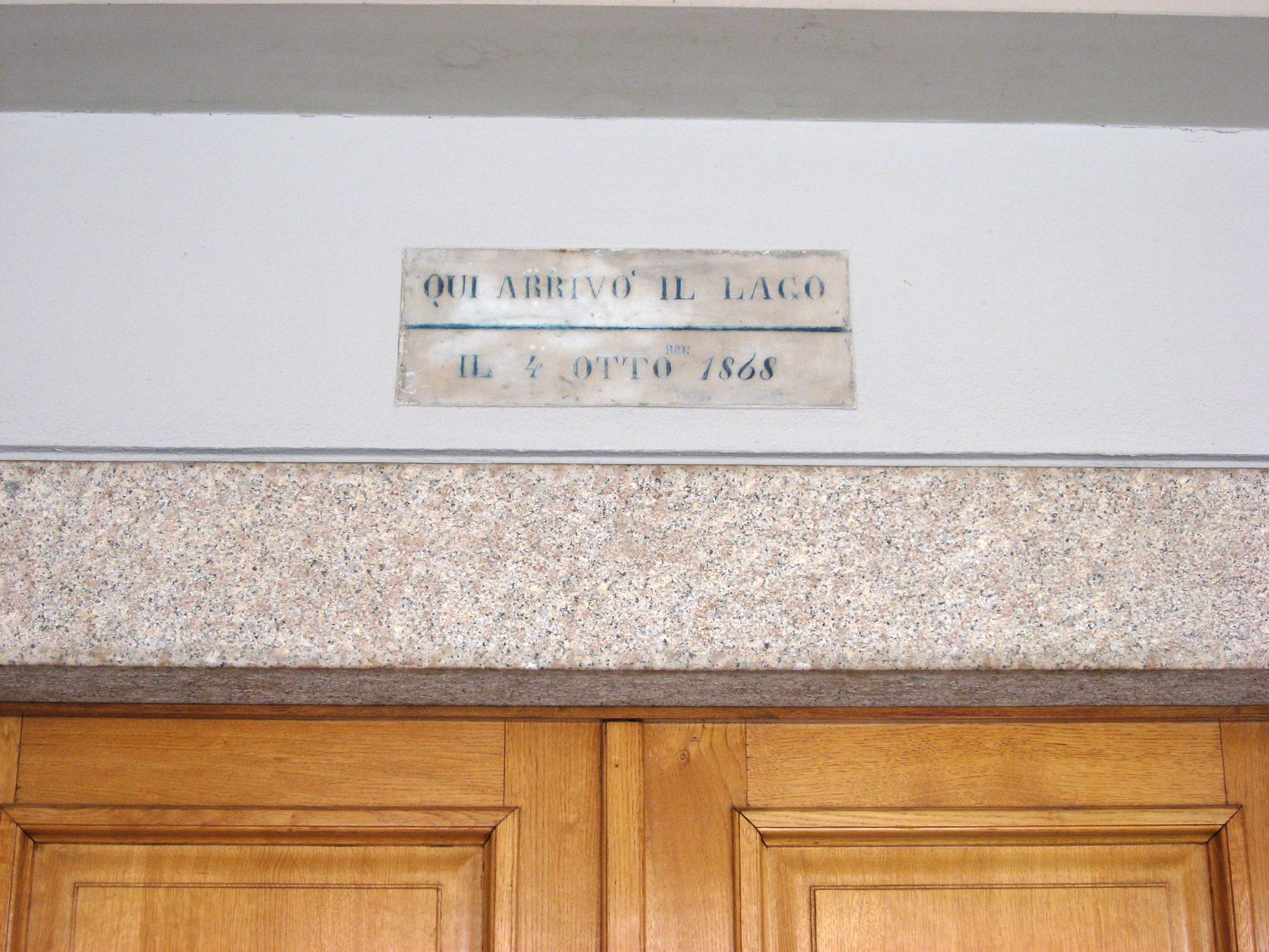 Flood mark at building on Piazza Grande in Locarno (about 2.5 to 3 meters above street level)